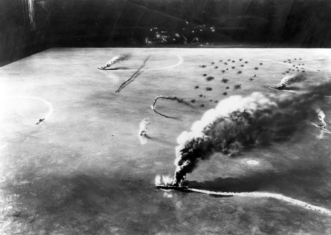 Battle of Midway, June 1942. Diorama by Norman Bel Geddes, depicting the attack by USS Yorktown (CV-5) and USS Enterprise (CV-6) dive bombers on the Japanese aircraft carriers Soryu, Akagi and Kaga in the morning of 4 June 1942. The diorama was created during World War II on the basis of information then available. It is therefore somewhat inaccurate in scope and detail. This angle of view is essentially the reciprocal of that shown in Photo # 80-G-701869. It depicts Soryu (attacked by Yorktown aircraft) in the center foreground, with Kaga and Akagi (both attacked by Enterprise aircraft) as the two most distant burning ships. The burning ship at far right is a light cruiser, which had been erroneously reported to have been hit.